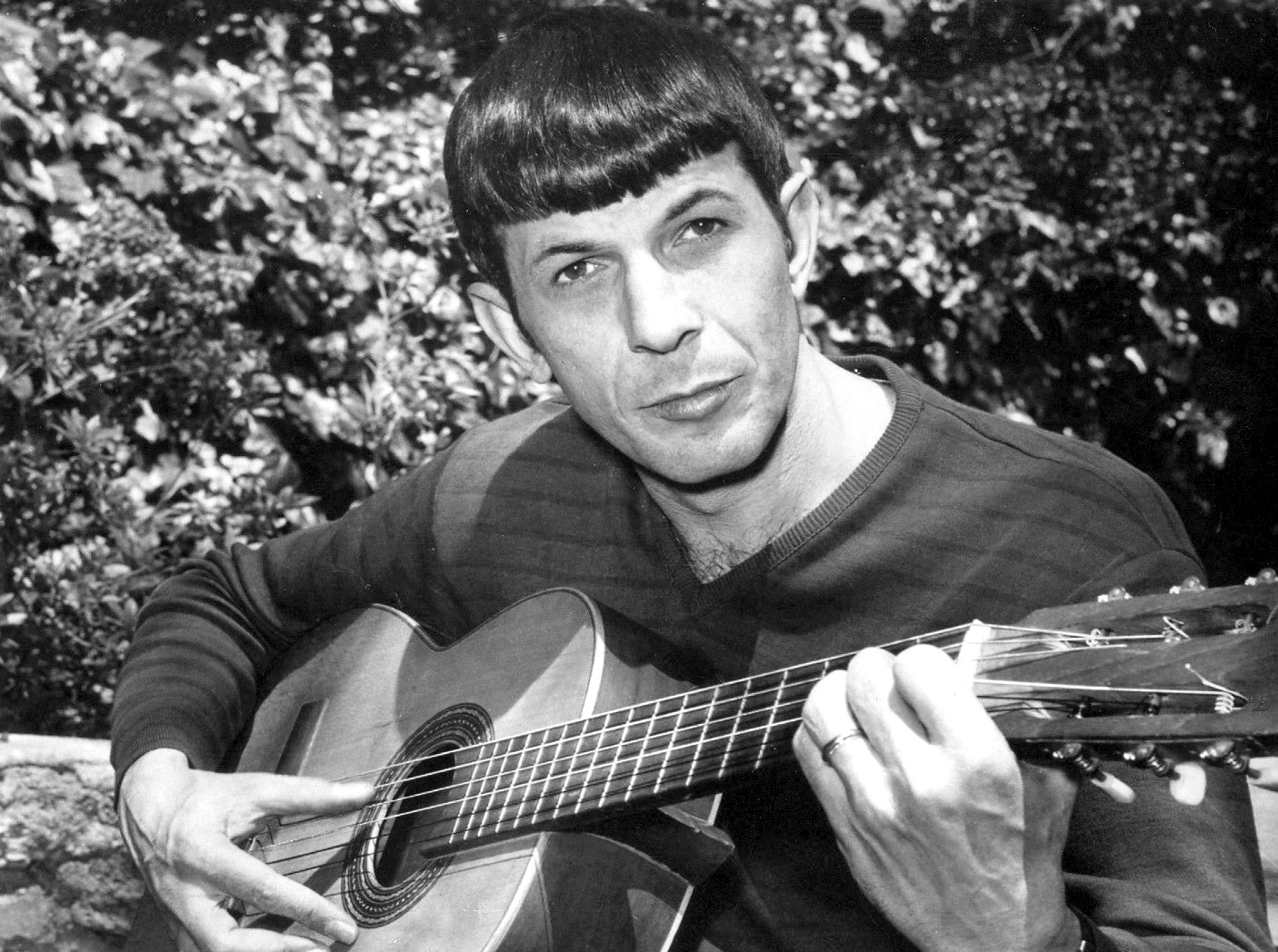 Photo of Leonard Nimoy.